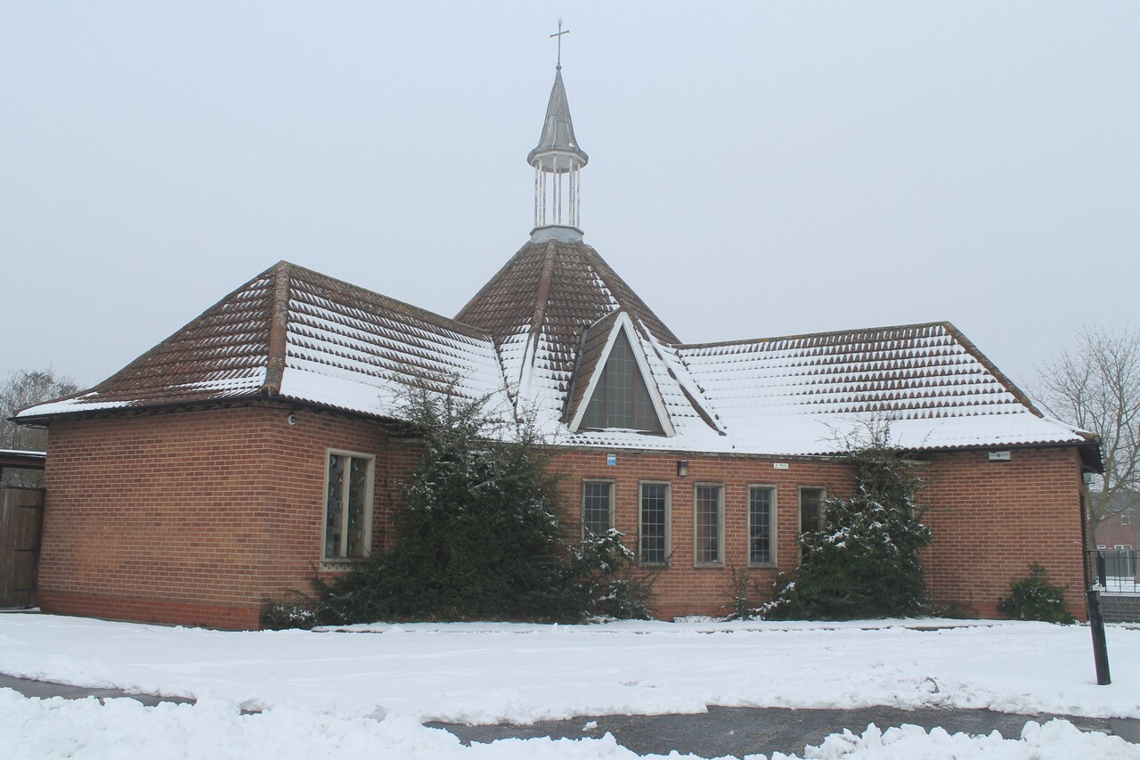 St Luke's parish church, Birchwood, Lincoln, in snow